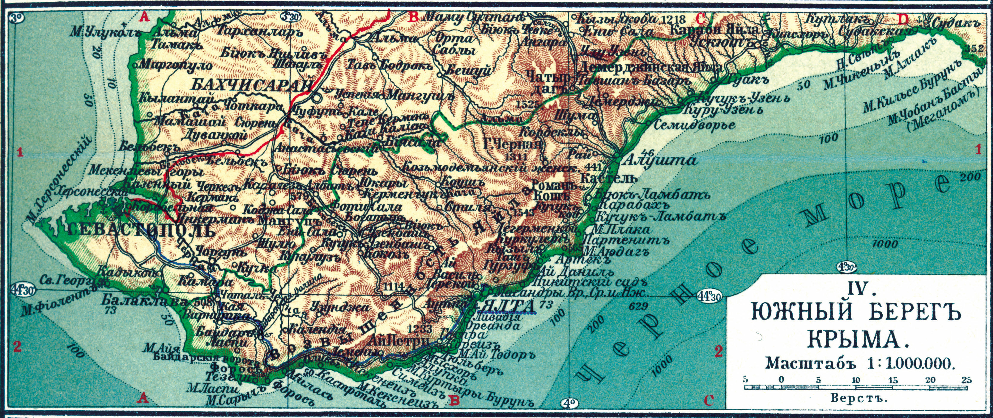 County Map of Yalta Tauride province, 1903